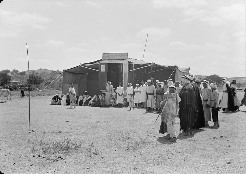 The Dept. of Health, Mobile Ophthalmic Clinic. Operating in Arab villages of the South Country, N.E. of Gaza. Ophthalmic clinic on outskirts of Nedj'd village N.E. of Gaza